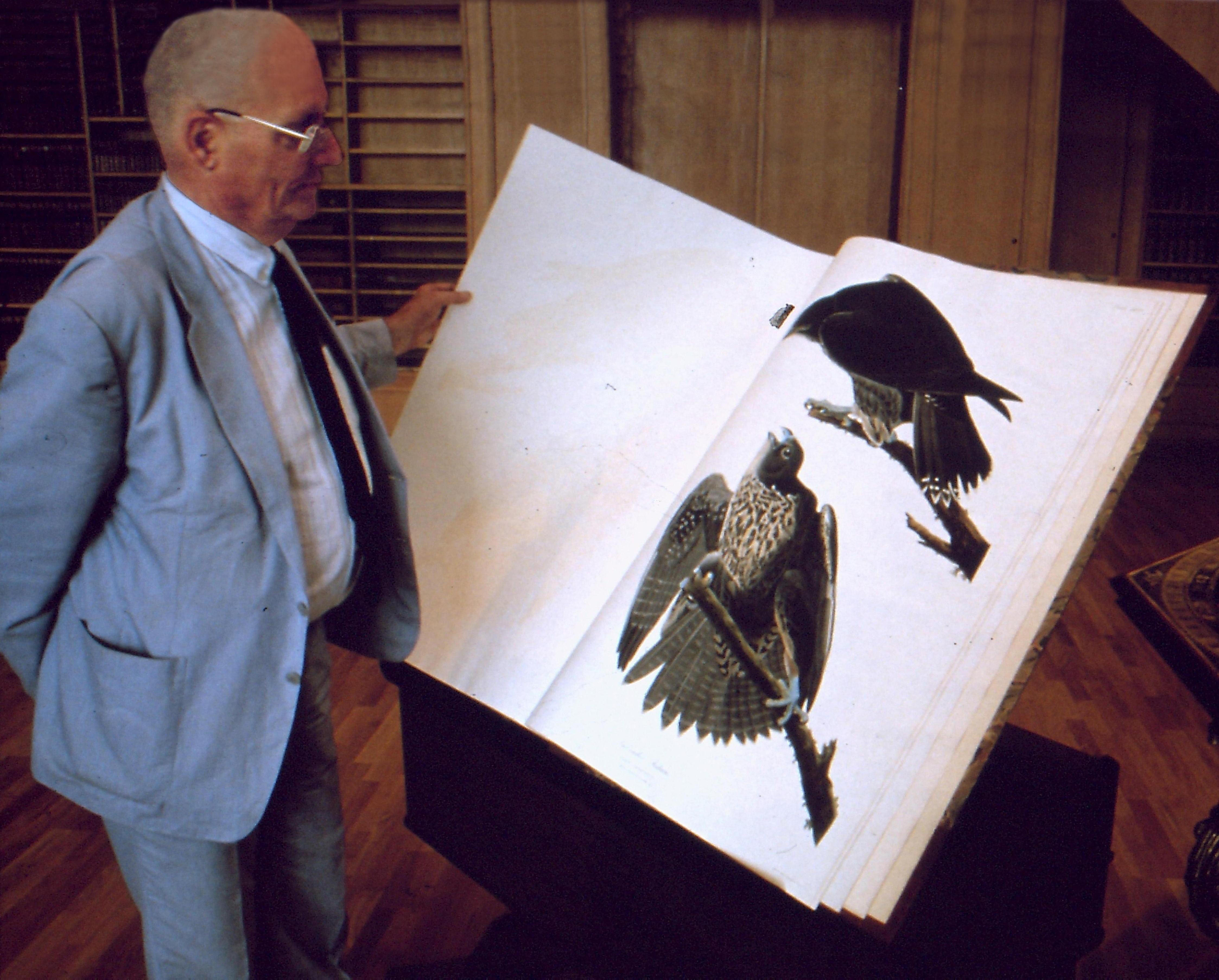 Pr Jean Dorst former Head of Museum national d'Histoire naturelle of Paris, consulting the book The Birds of America of J.J. Audubon at the Central Library of the Museum